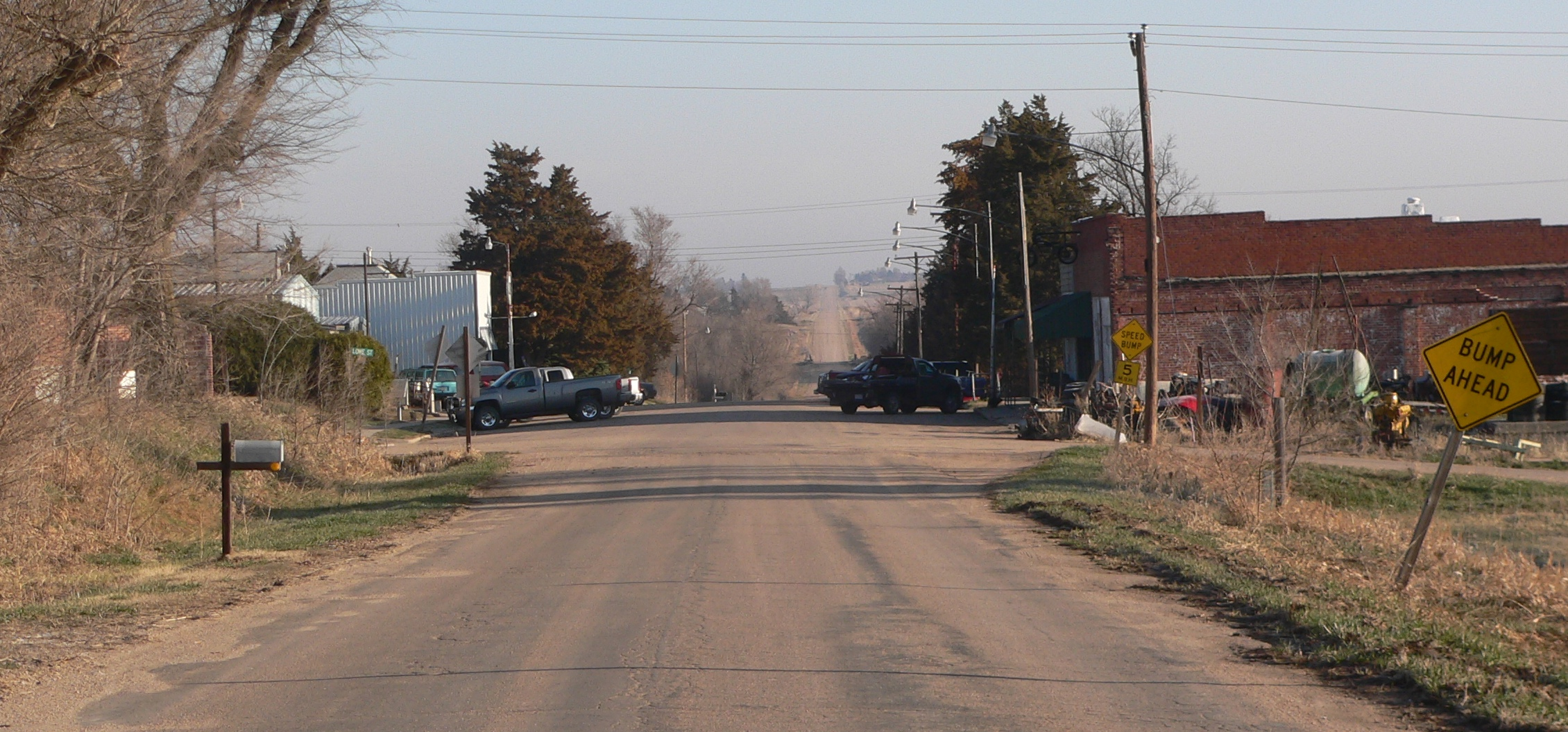 Downtown Huntley, Nebraska: Division Avenue, seen from the south.